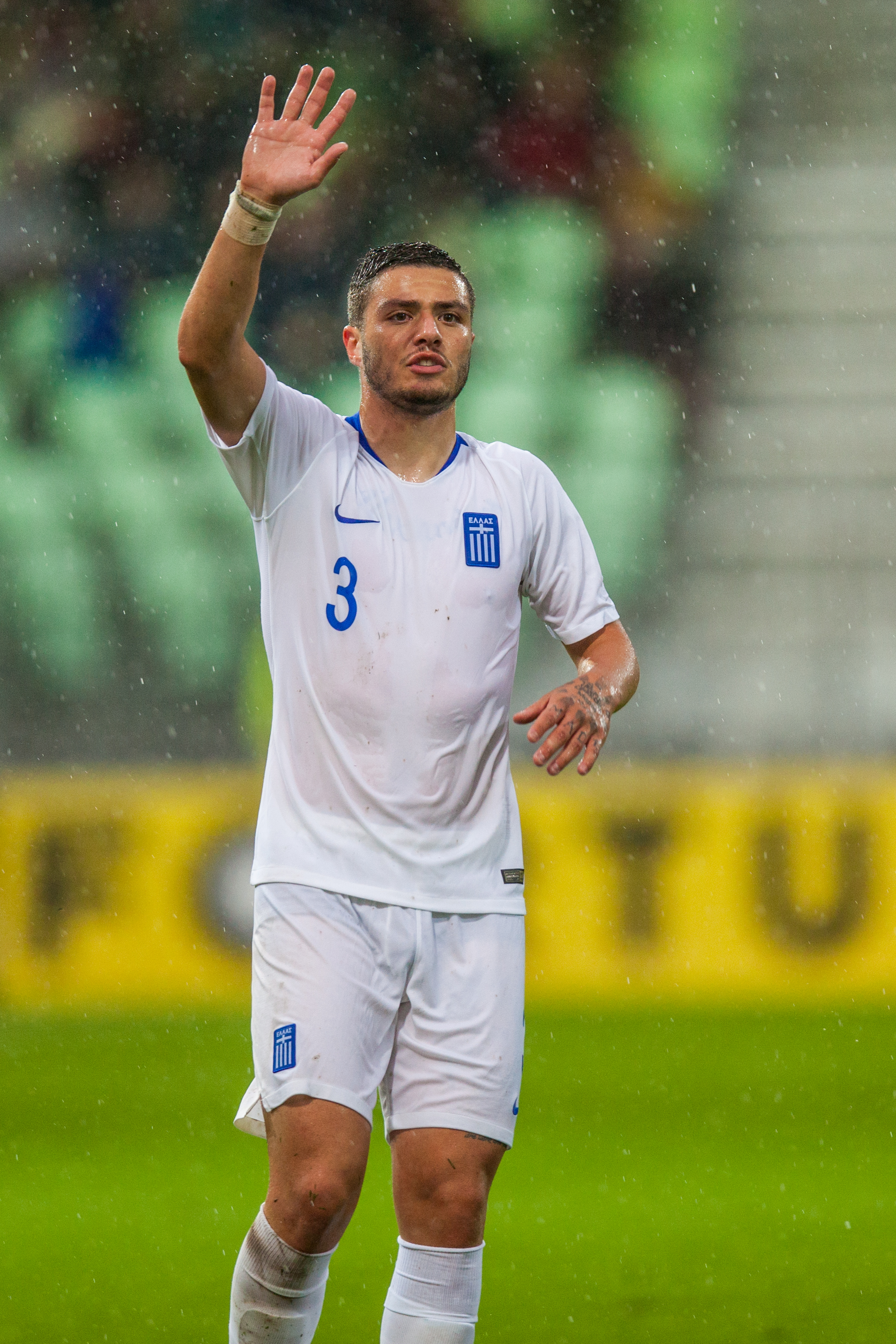 Alexandros Katranis in an internatinoal association football match of European Under-21 Championship Qualifying Round between the Czech Republic and Greece, Městský stadion Karviná, Karviná District, Moravian-Silesian Region, Czechia Personality rights warningAlthough this work is freely licensed or in the public domain, the person(s) shown may have rights that legally restrict certain re-uses unless those depicted consent to such uses. In these cases, a model release or other evidence of consent could protect you from infringement claims.